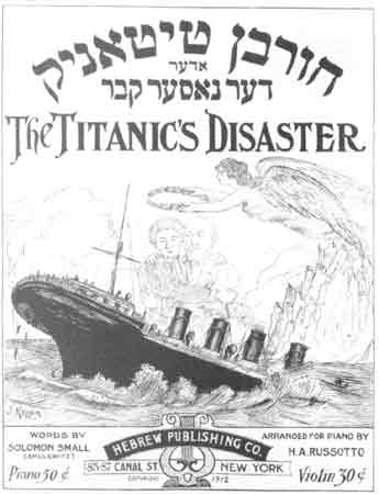 Copy of a cover of the sheet music for the song "The Titanic's Disaster", written in 1912.